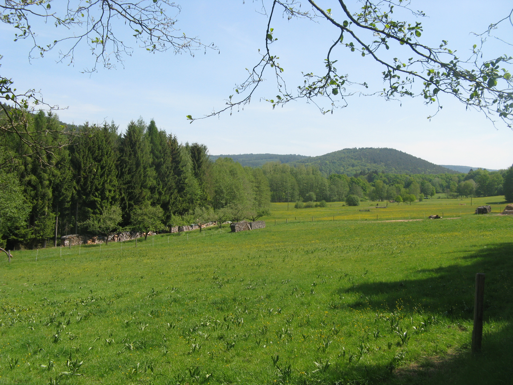 Kasselgrund and Alteburg, Celtic residence, Biebergemünd/Germany